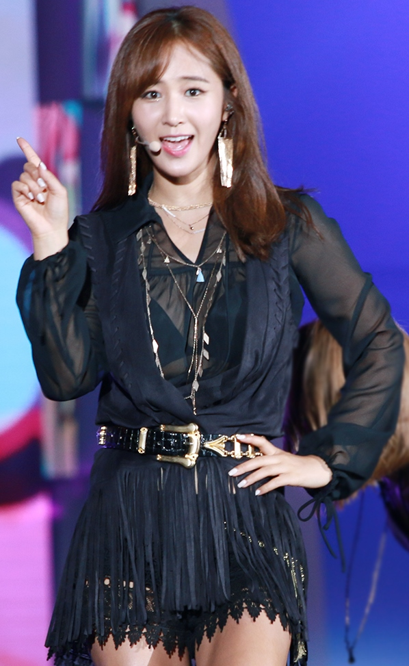 Yuri at MBC DMZ Peace Concert on August 14, 2015.